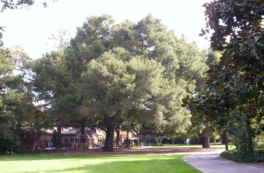 Jesus Monroy Jr., own use, This is Menlo Park's California live oak, or Coast live oak (Quercus agrifolia). Behind the tree on the left is the day school, part of the Civic Center. Not visible, but directly behind the tree is the Council Chambers.